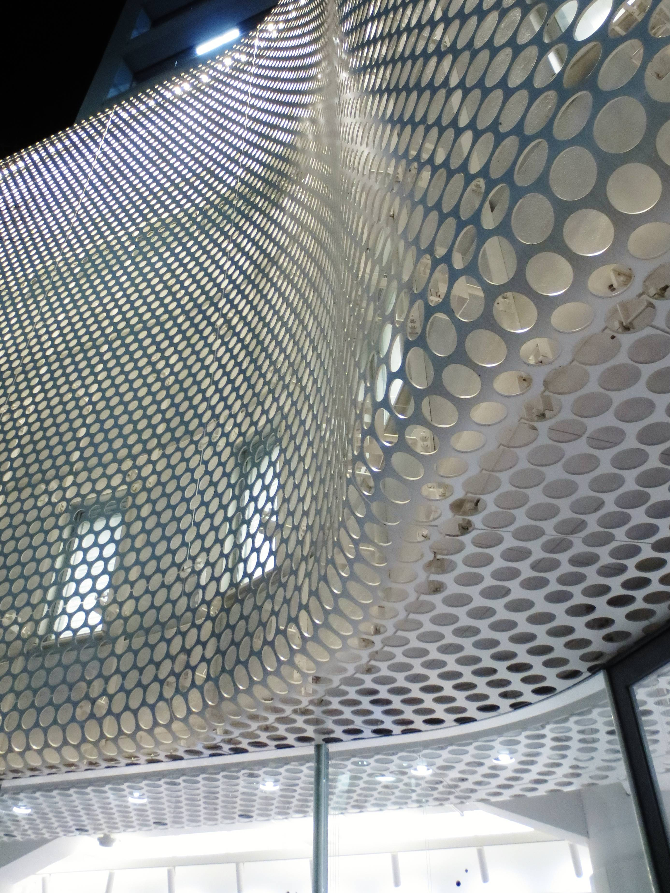 Arts Maebashi.